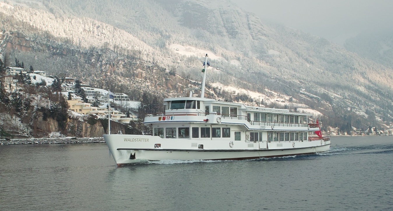 Lake Lucerne passenger ship MS "Waldstätter" (III), built in 1998.